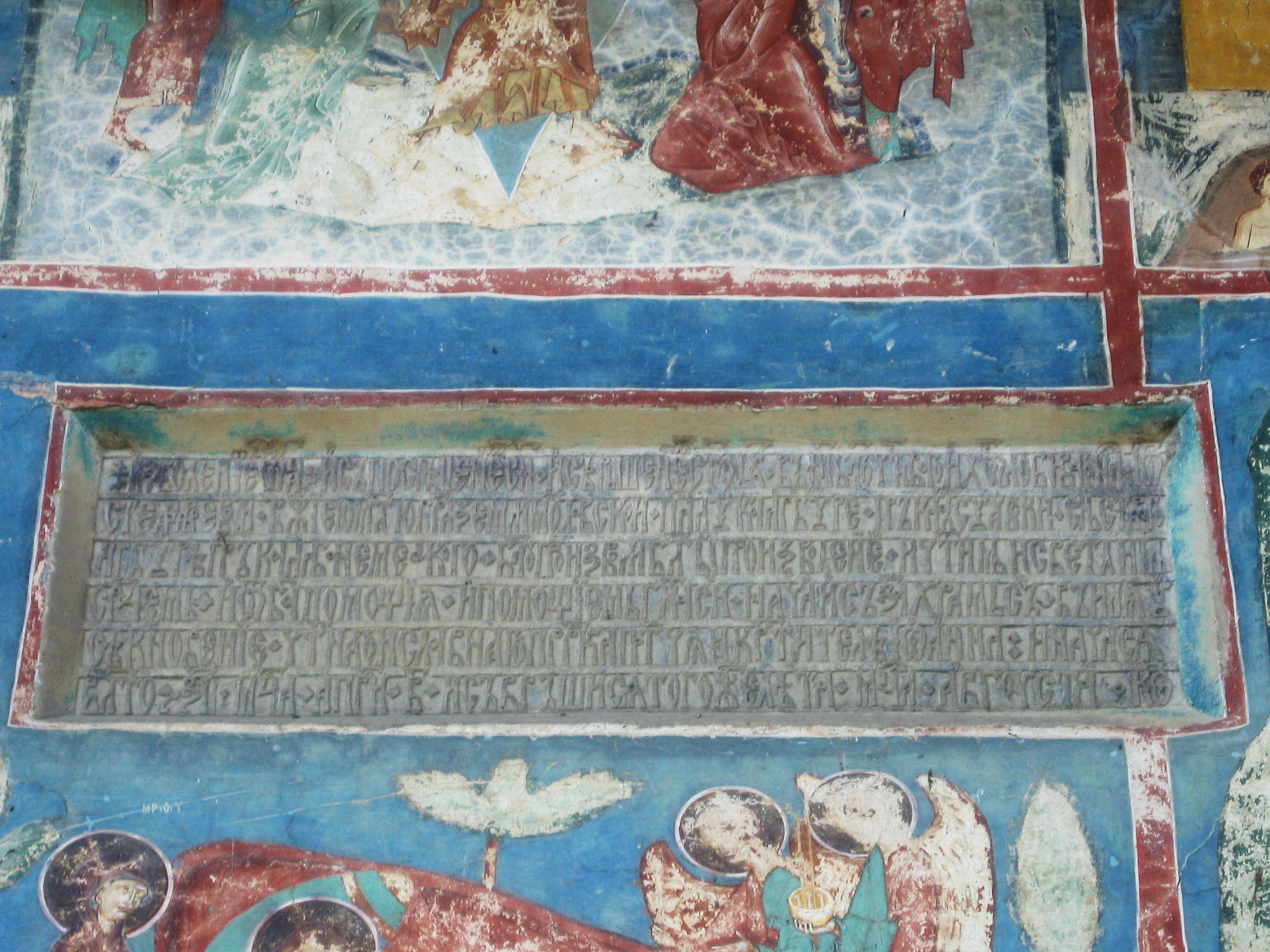 Arbore Monastery